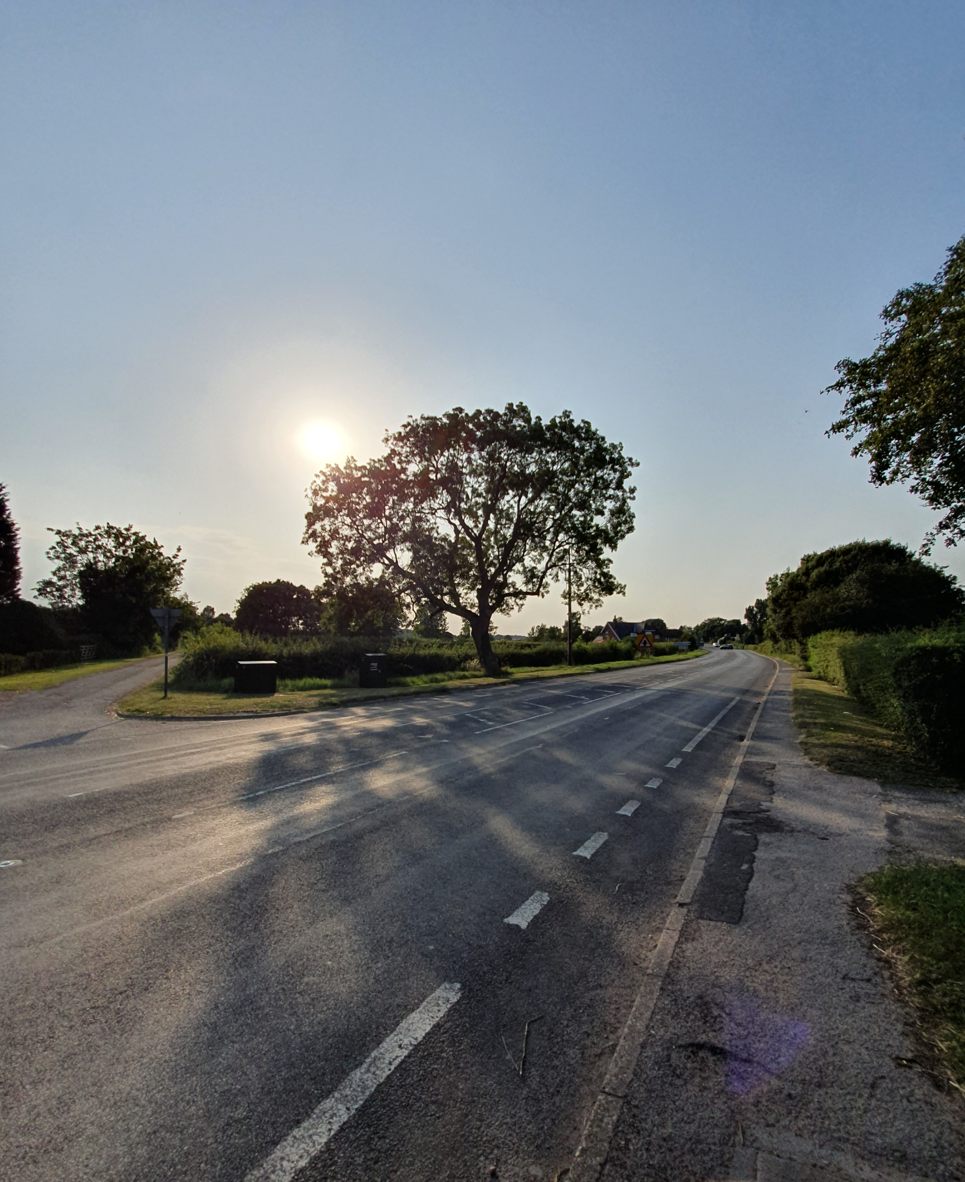 This is the B1164, formerly part of the Nottinghamshire section of the A1, the Great North Road.